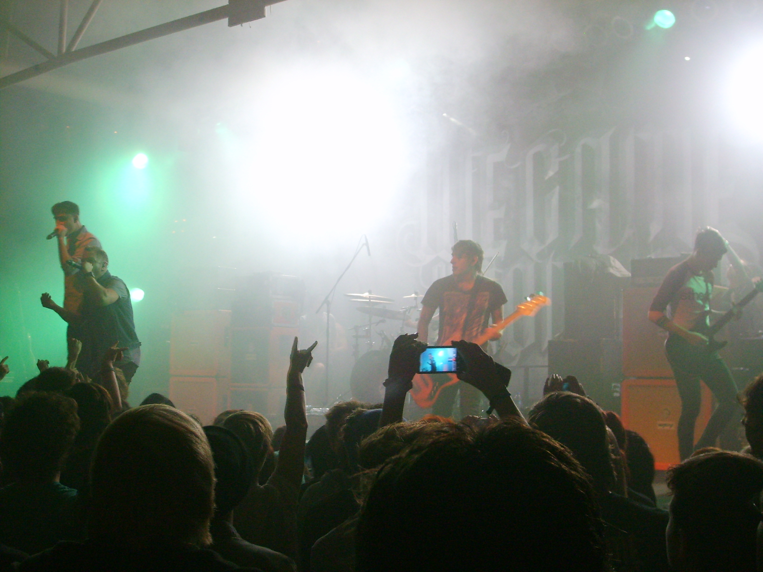 We Came as Romans live at the Never Say Die! Tour 2012